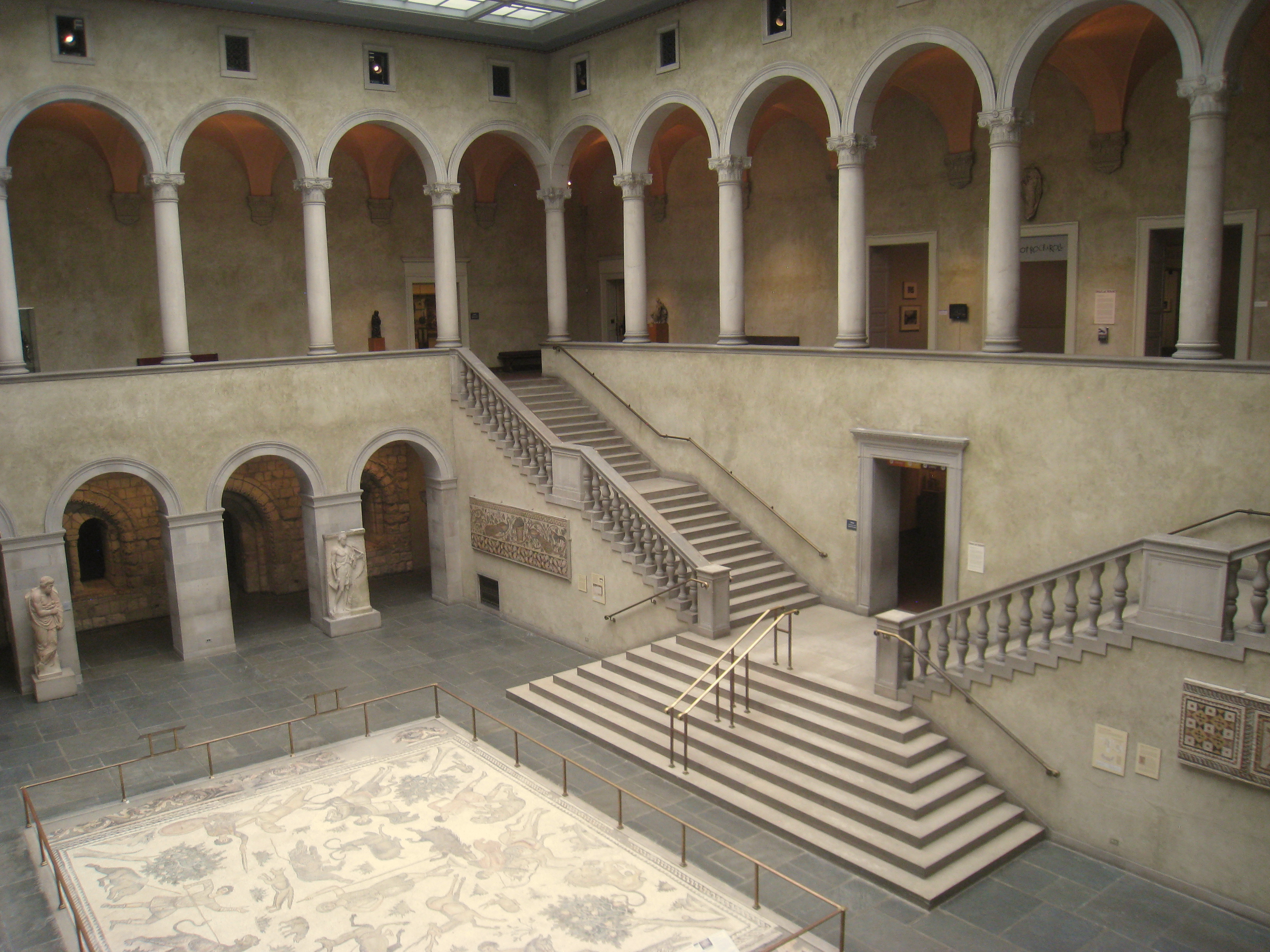 Interior view with Antioch mosaics, in the Worcester Art Museum, Worcester, Massachusetts, USA. The museum permits photography and does not restrict usage of the photographs.